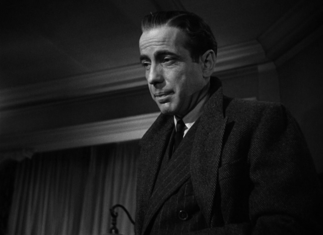 Frame from the 1941 public domain trailer for the Warner Bros. film The Maltese Falcon showing Humphrey Bogart as Sam Spade.